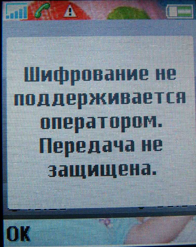 The message in Russian on the screen of a mobile phone with the warning about lack of ciphering